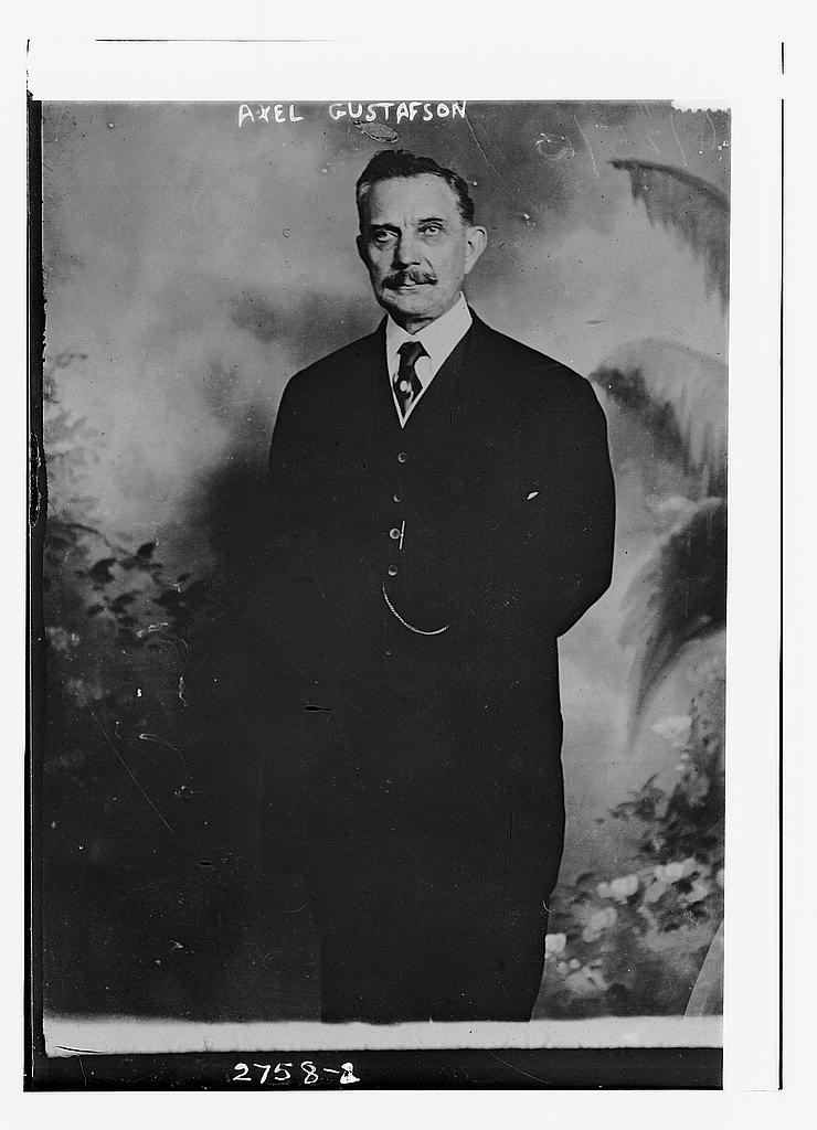 Bain News Service, publisher. Axel Gustafson [no date recorded on caption card] 1 negative : glass ; 5 x 7 in. or smaller. Notes: Title from unverified data provided by the Bain News Service on the negatives or caption cards. Forms part of: George Grantham Bain Collection (Library of Congress). Format: Glass negatives. Repository: Library of Congress, Prints and Photographs Division, Washington, D.C. 20540 USA, General information about the Bain Collection is available at Persistent URL: Call Number: LC-B2- 2758-2